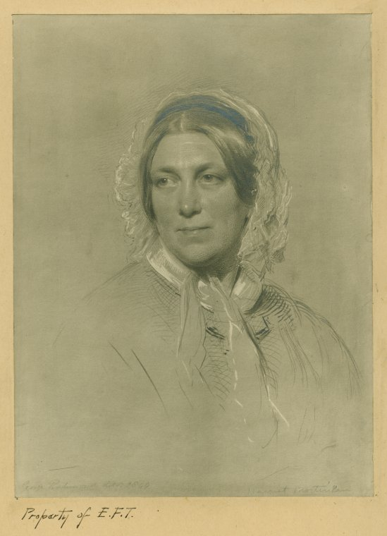 British sociologist Harriet Martineau